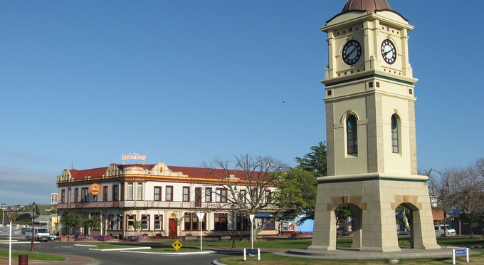 Picture of the town of Feilding, New Zealand, at Kimbolton Rd, Manchester Square.